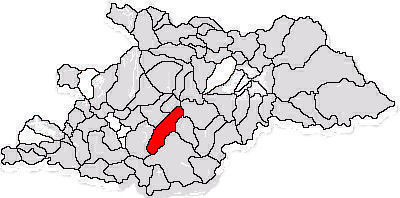 Map of Cerneşti commune in Maramureş